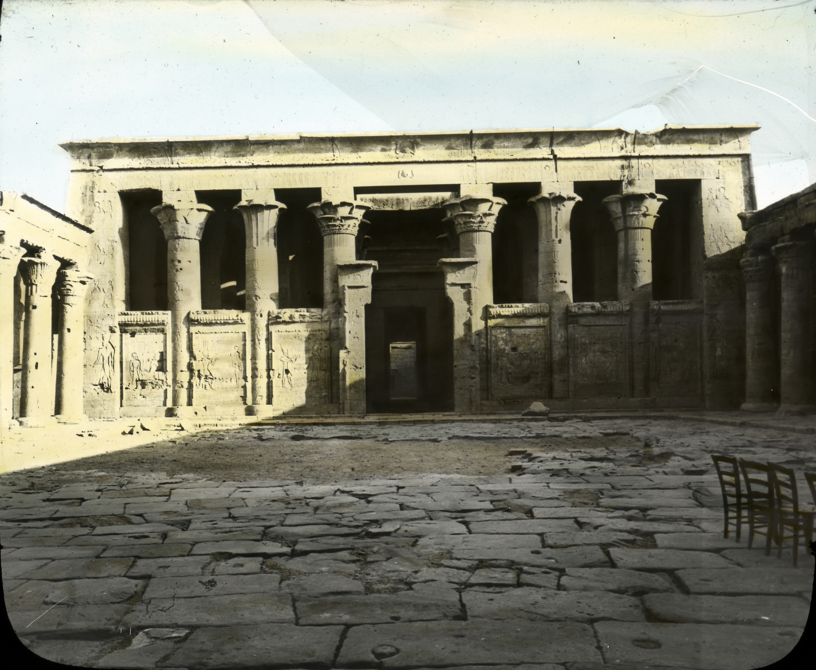 Lantern Slide Collection: Views, Objects: Egypt. Edfu [selected images]. View 03: Egypt - North side of court of Temple of Edfu., n.d., This slide colored by Joseph Hawkes. Brooklyn Museum Archives (S10.08 Edfu, image 9886).